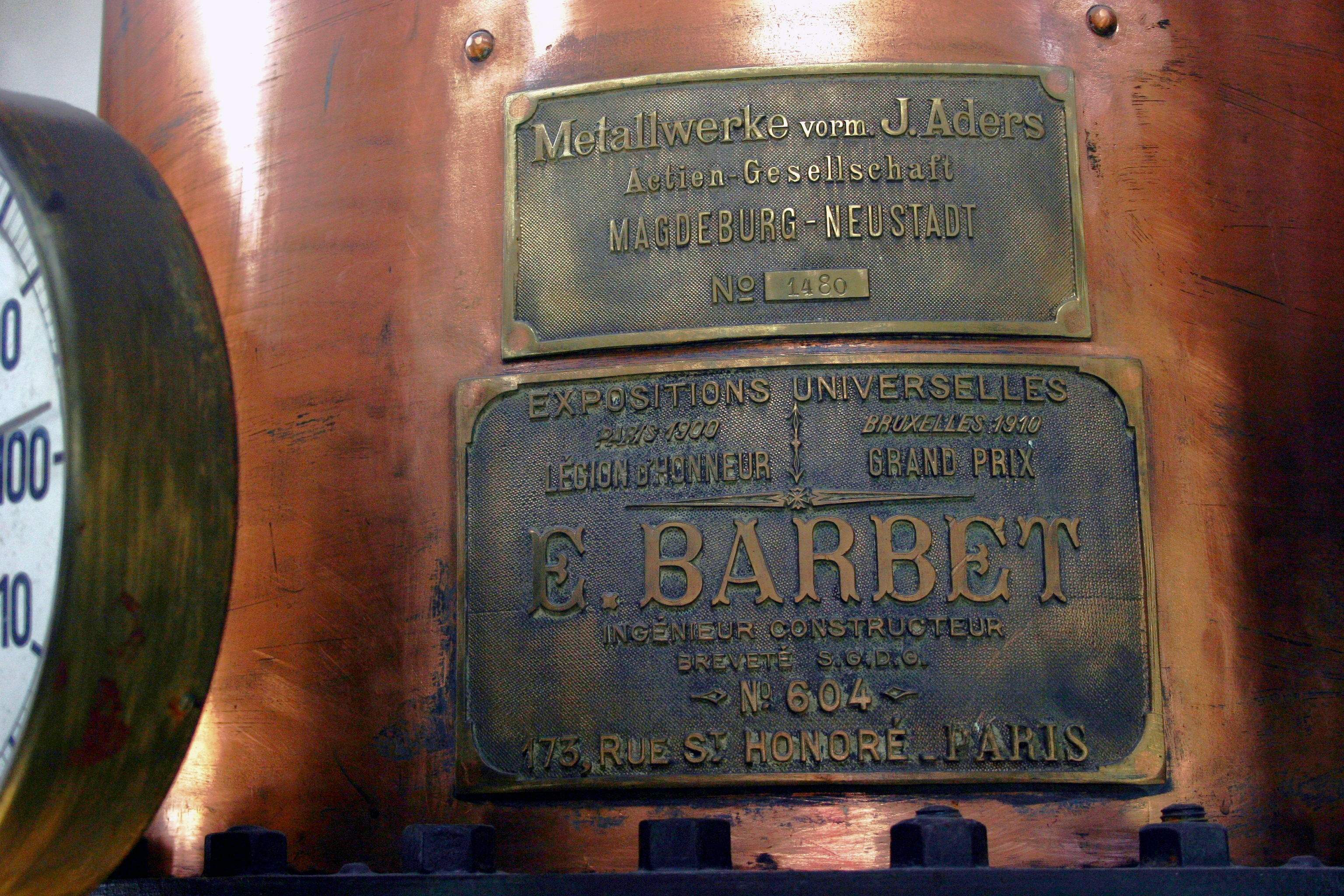 The patent owner and manufacturer license plates